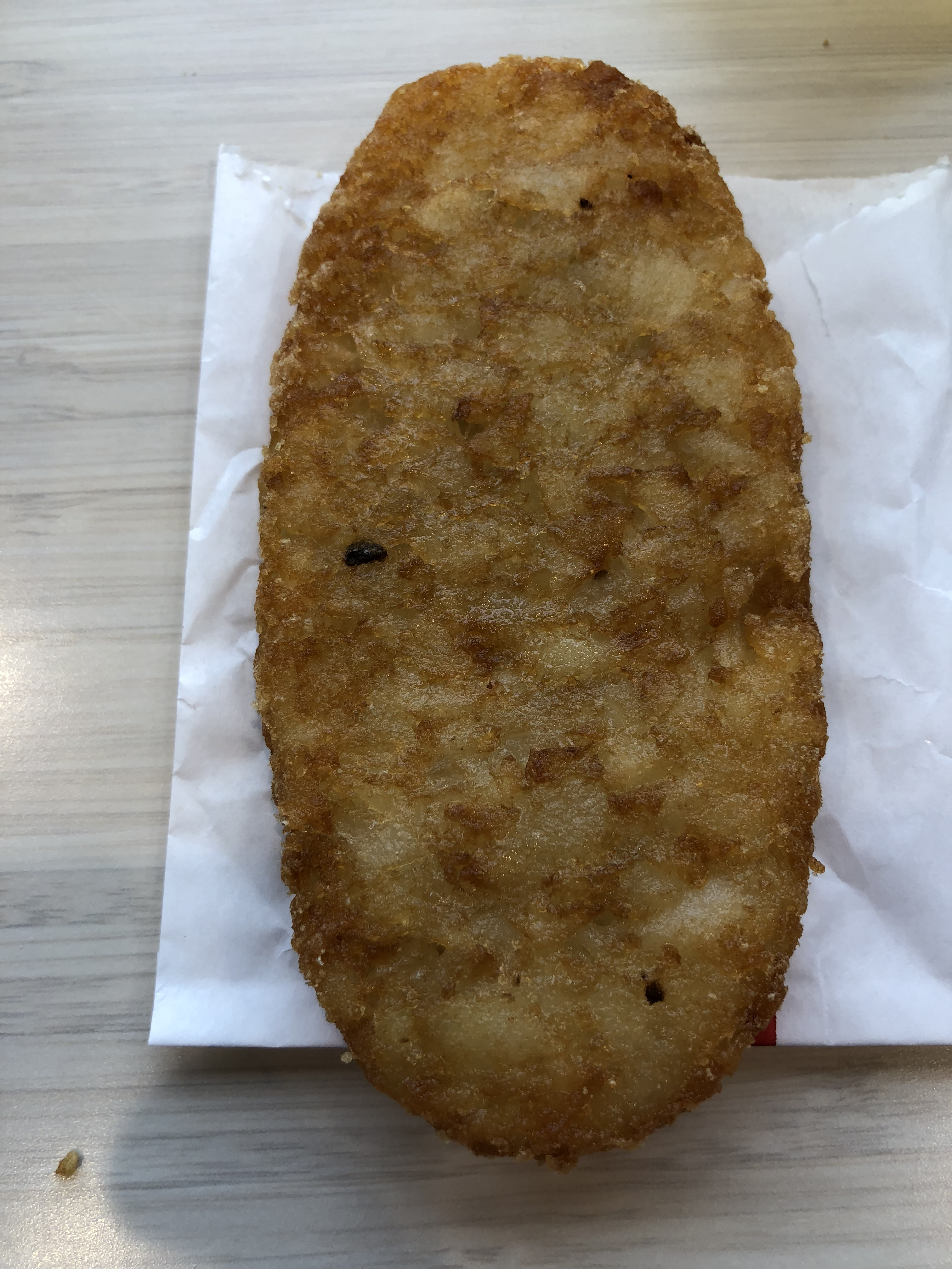 A McDonald's hash brown in Chantilly, Fairfax County, Virginia